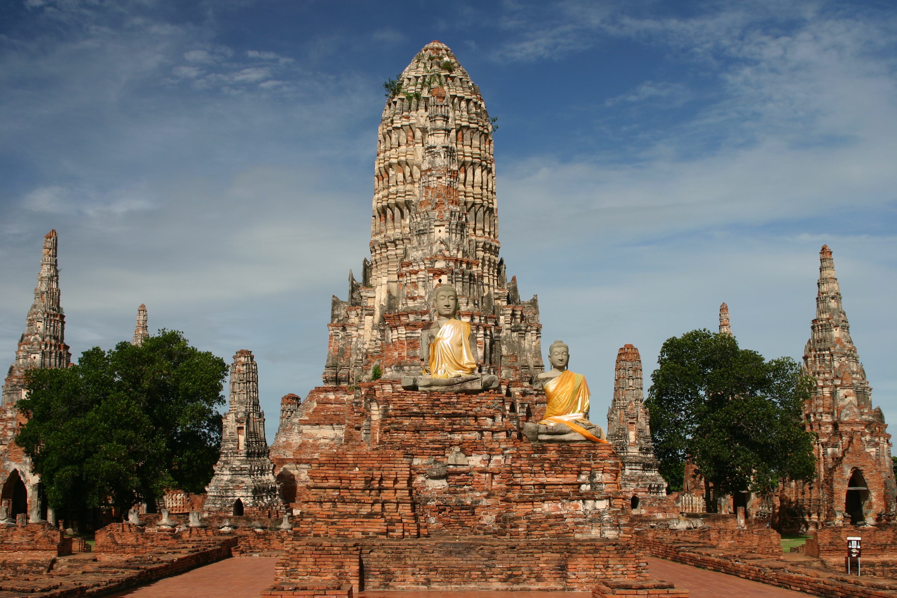 Wat Chai Watthanaram, Ayutthaya Historical Park, central Thailand.